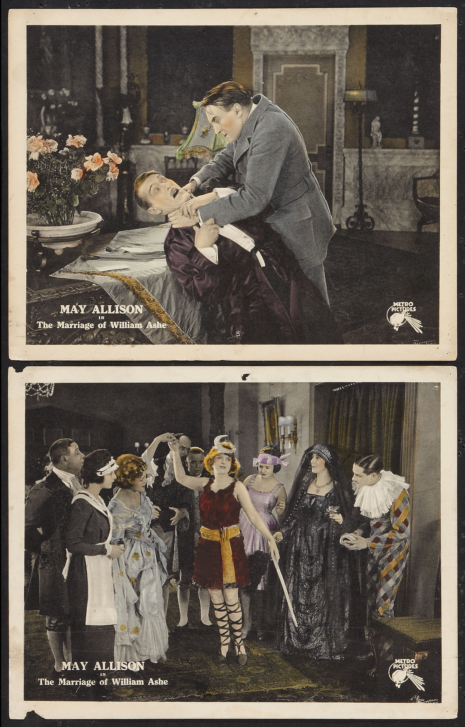 Lobby cards from the American film The Marriage of William Ashe (1921).